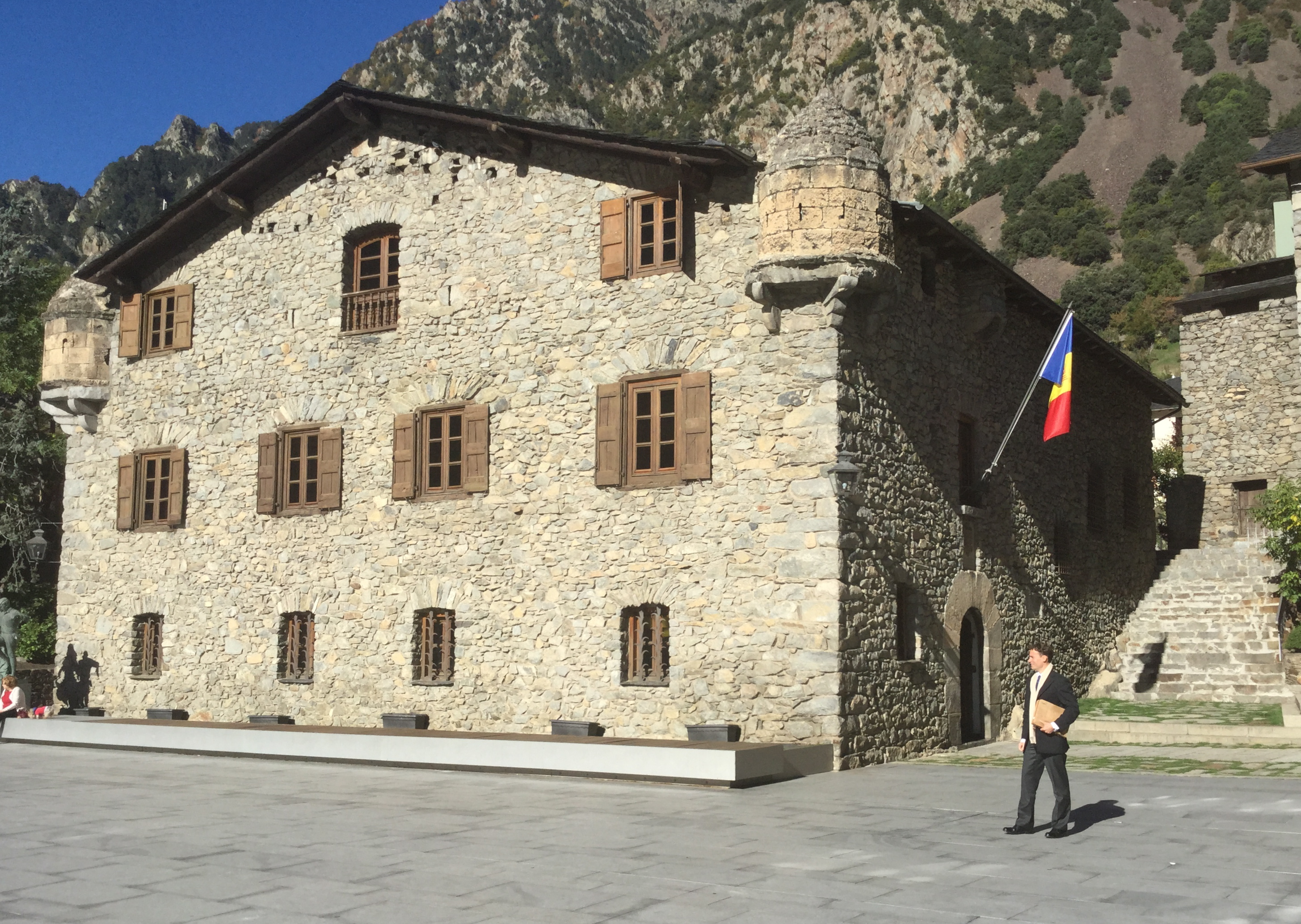 Casa de la Vall, the historic Parliament building of Andorra